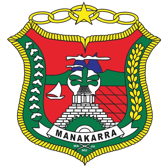 Coat of arms of Mamuju Regeny, West Sulawesi